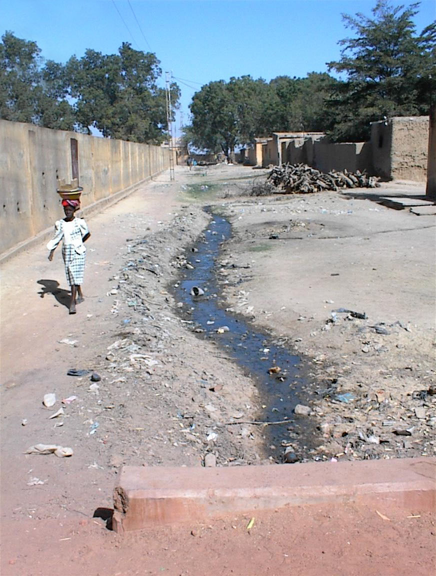 A woman walks through the streets of Niono, Mali, near a drainage ditch. In Niono, Mali, open sewers and haphazard waste collection provide mosquitoes with breeding habitats and contribute to a high incidence of malaria.